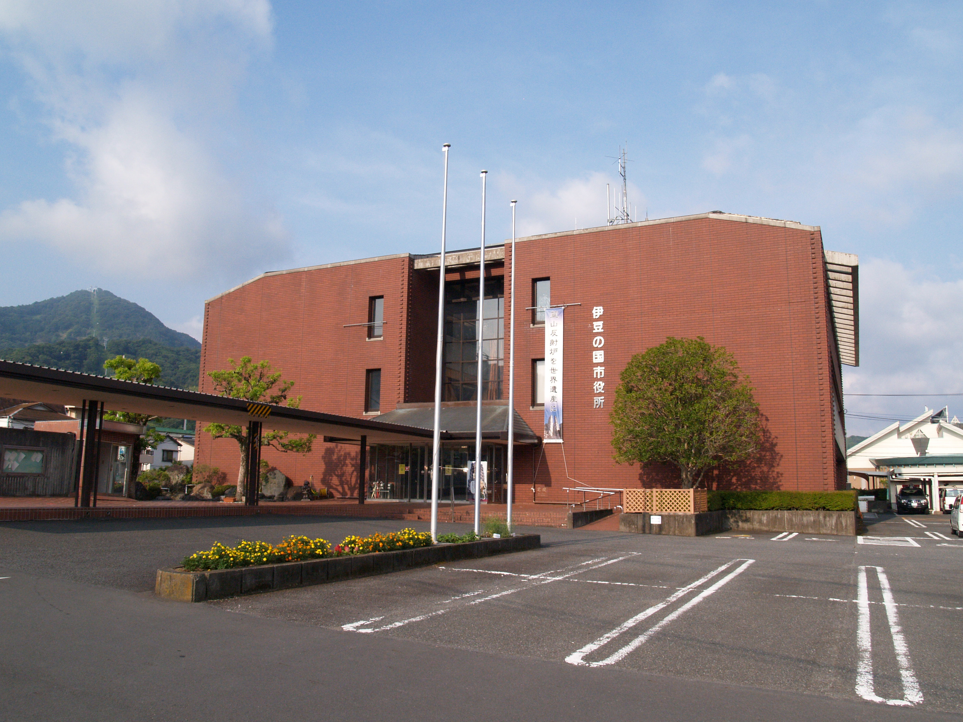 Izunokuni city office